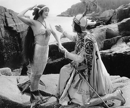 Annette Kellerman (left), in mermaid costume in role of "Merrilla, the Queen of the Sea", with unidentified actor.